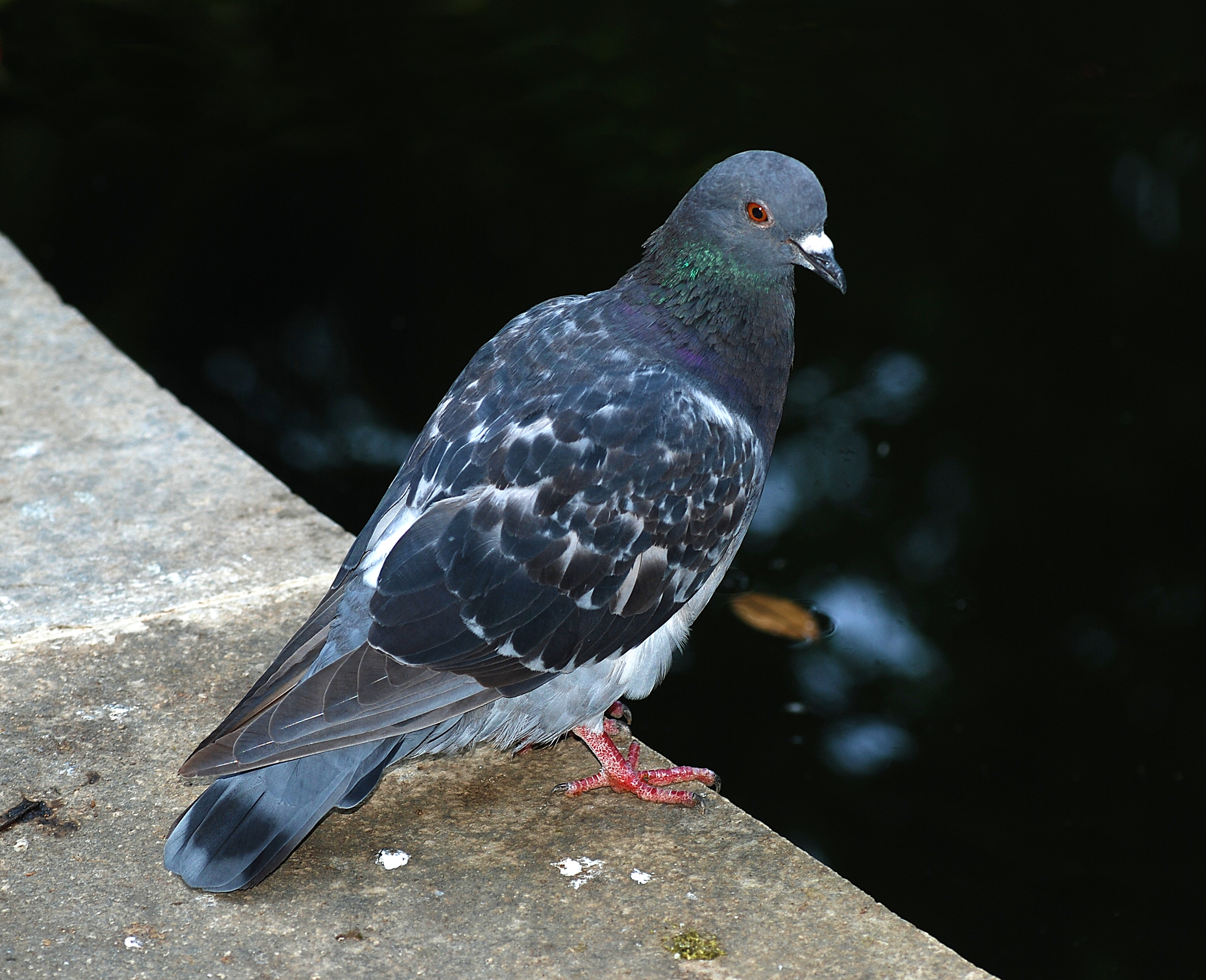 Common rock pigeon (Columba livia)